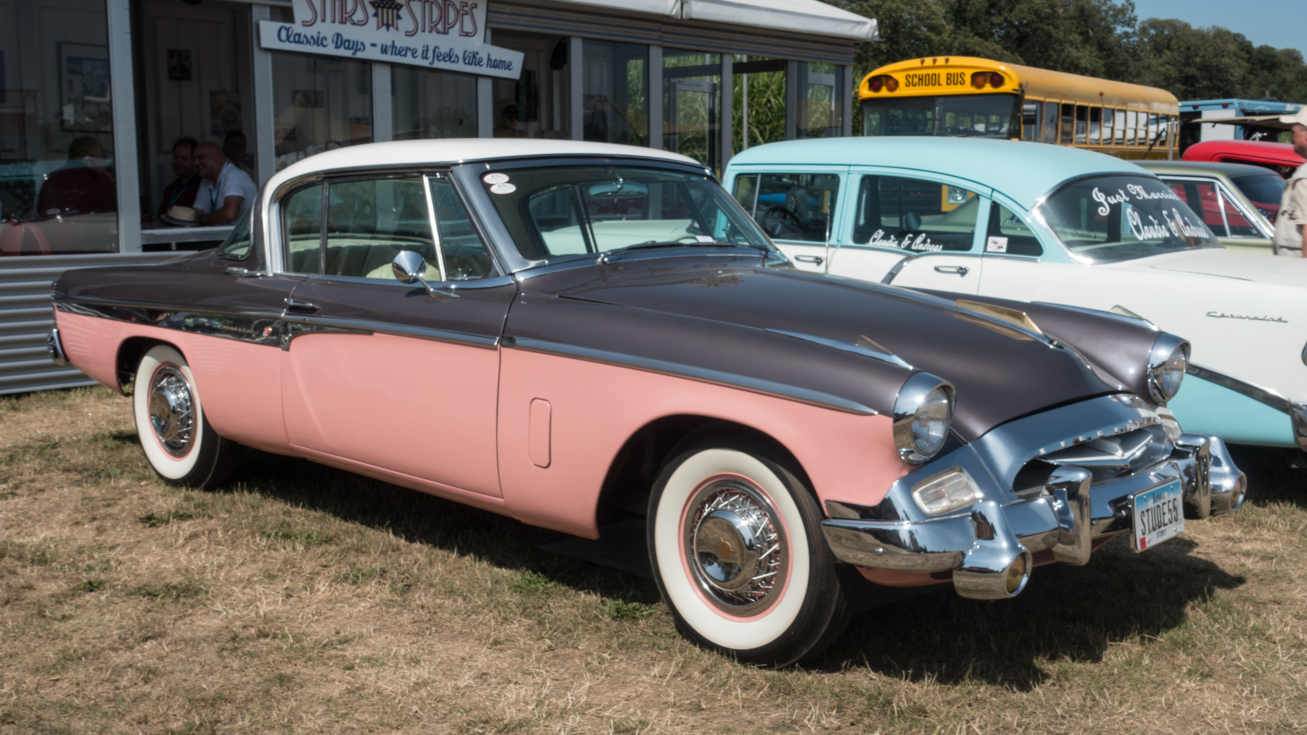 Studebaker President Speedster (1955) at Classic Days 2019 Dyck Castle